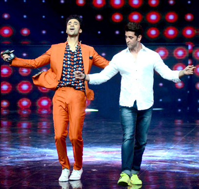 Juyal on the sets of 'Dance +'